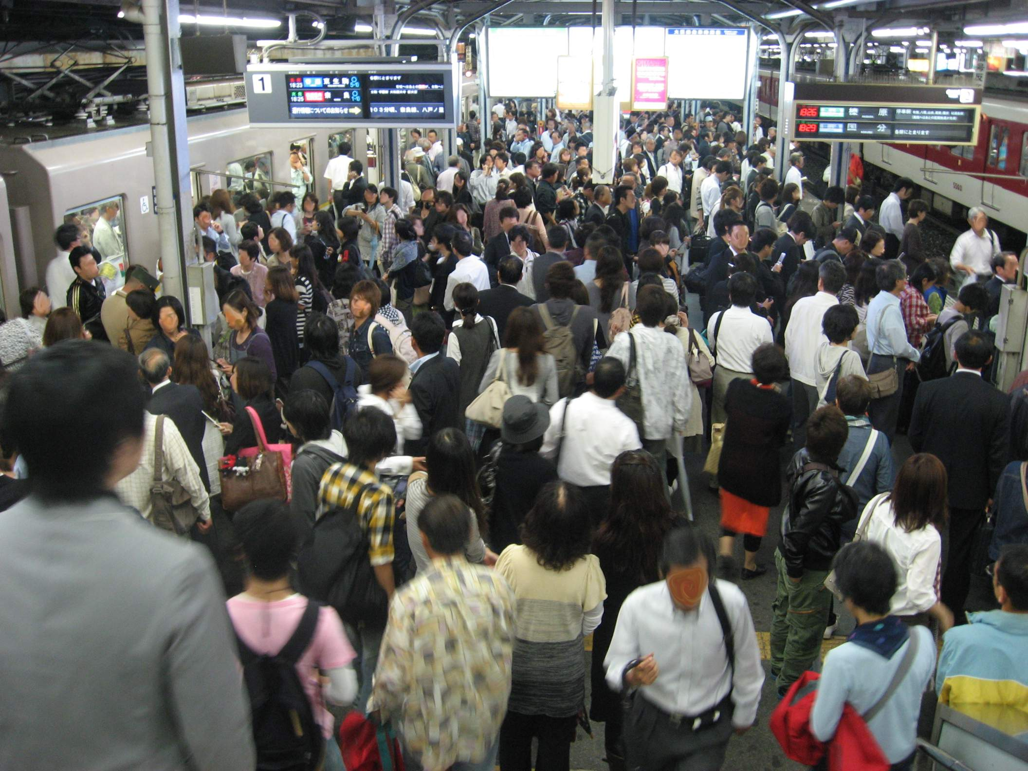 Beginning of the evening-rushhour at Kintetsu Tsuruhashi station on September 30th, 2010. Photo shows platforms 1 and 2 from the connection-stairs to the JR Osaka Loop-Line comming from Kyobashi. On the left: delayed 18:23h-local for Yamato-Saidaiji (Nara) is still in the station, hence the following 18:25h-express for Nara is also delayed.